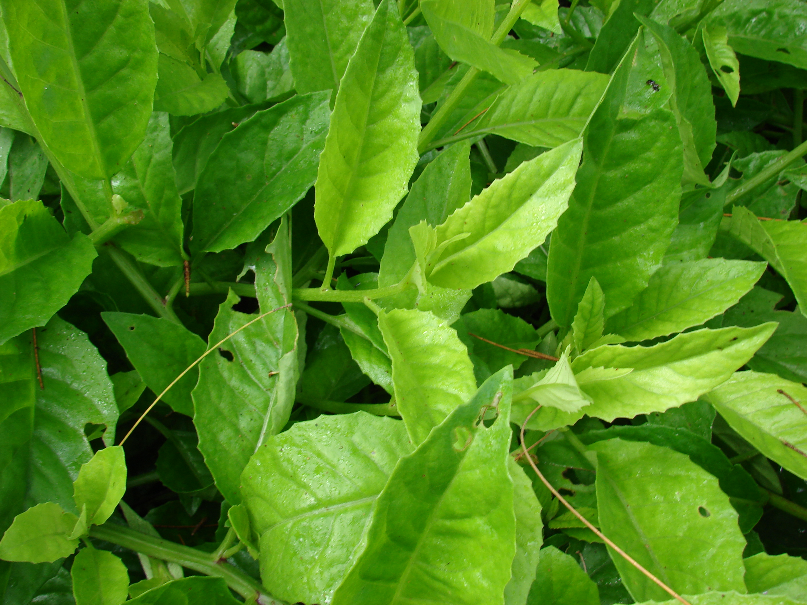 Gynura bicolor (Okinawan spinach, cholesterol spinach, longevity plant) Leaves pat tum pang 080608 03 at Water plant Sand Island, Midway Atoll, Hawaii. June 08, 2008 #080608-7430 Image Use Policy Taxonomy of these images uncertain. Some could possibly be G. nepalensis or G. procumbens.